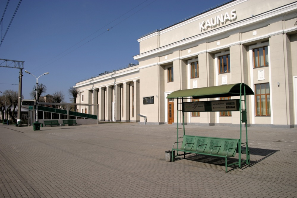 Newly remodeled train station in Kaunas.